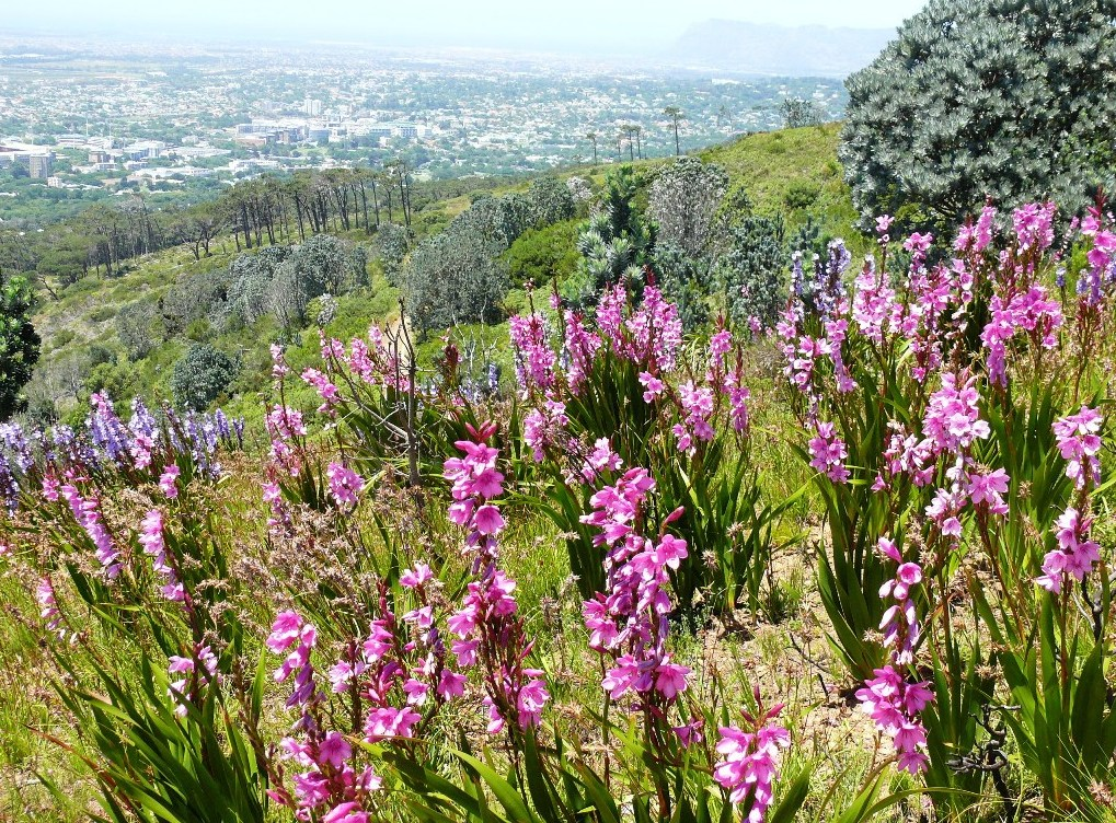 Peninsula Shale Fynbos. A subtype of Cape Winelands Shale Fynbos. Flowering geophytes with Silvertrees. Devils Peak above Rhodes Memorial. Cape Town.